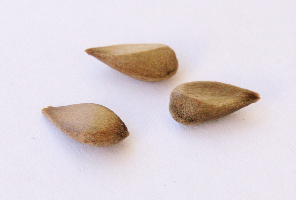 Seeds of an apple, Ontario variety. The length is approx. 7 to 9 mm. The width 4 to 5 mm.